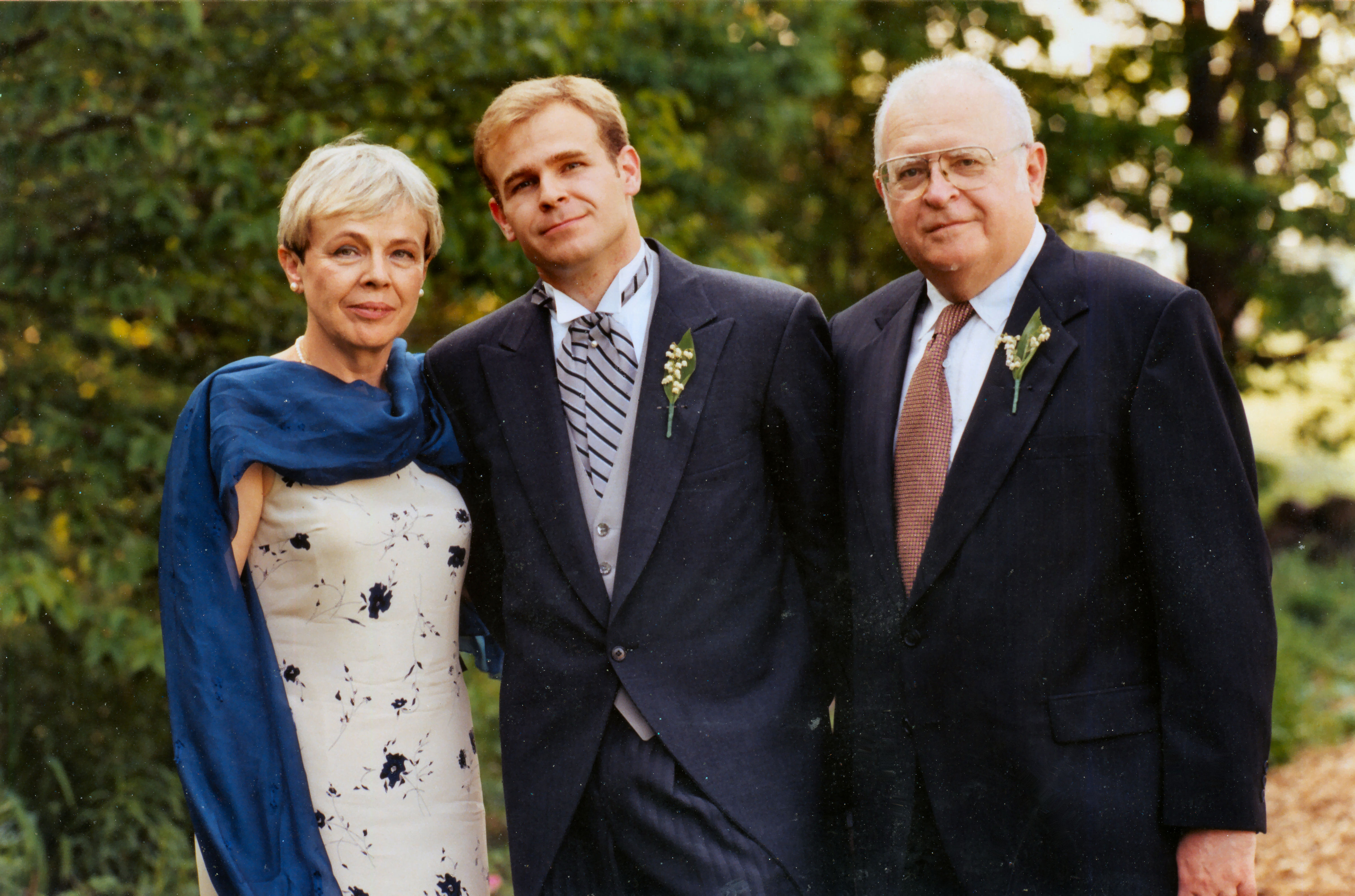 Picture of Virgil Nemoianu with wife and son Own picture. Release for Public Domain